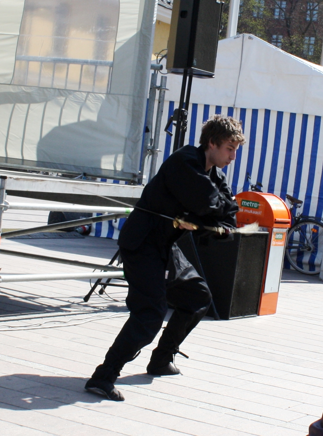 Finnish writer and film maker Aleksi Delikouras plays ninja on World Book Day 2009 in Helsinki